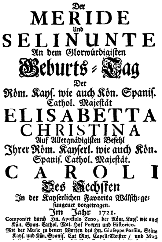 Giuseppe Porsile - Meride e Selinunte - german titlepage of the libretto - Vienna 1721